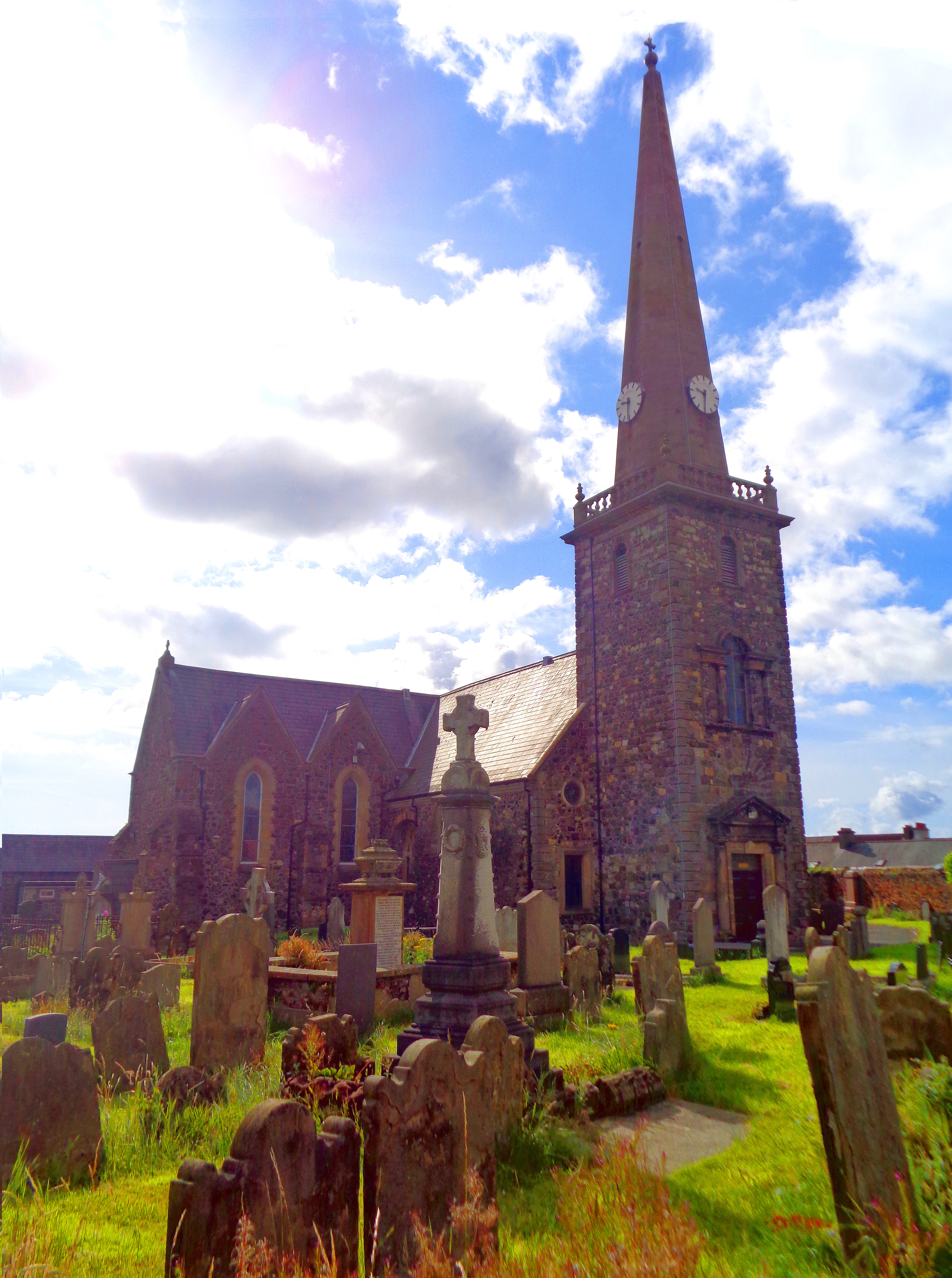 St Nicholas' Church and graveyard, Carrickfergus, County Antrim, Northern Ireland